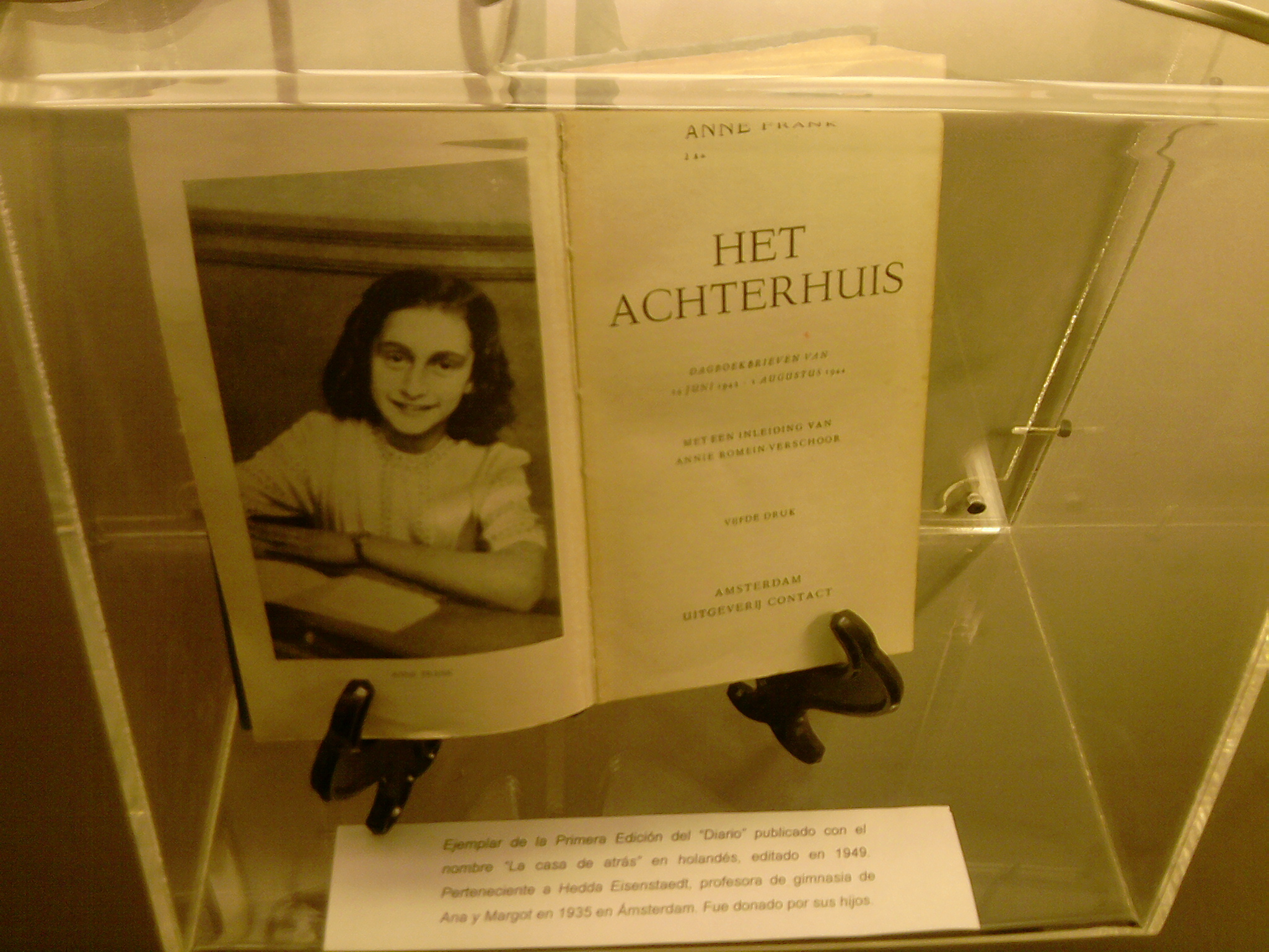 This book is from 1947 and is done by the first editorial that published Th Diary with the name of "The secret annex"